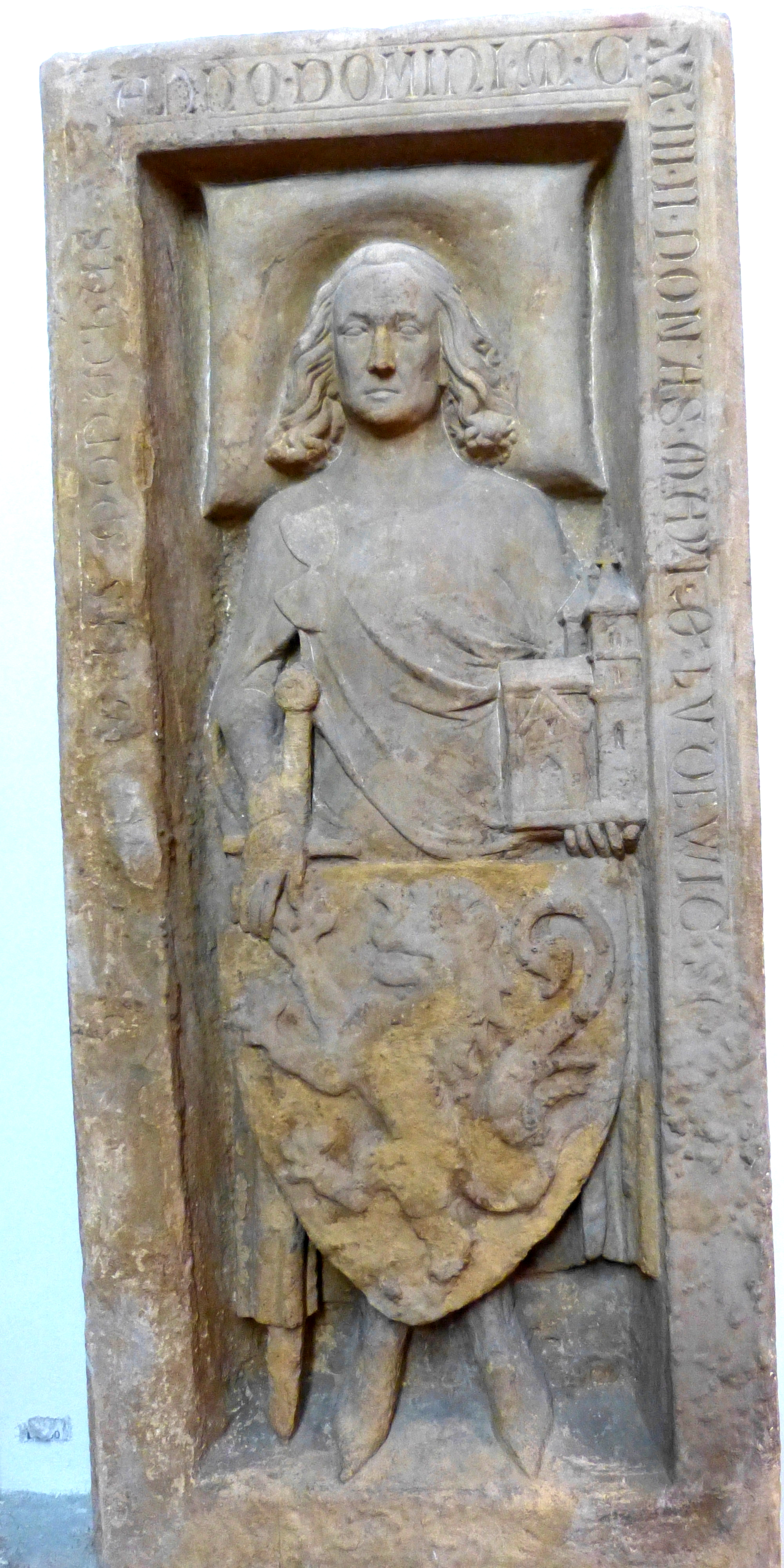 Eisenach ( Thuringia ). Saint George parish church - Grave monument ( 14th century ) for count Louis the Leaper ( + 1123 ) of Thuringia.